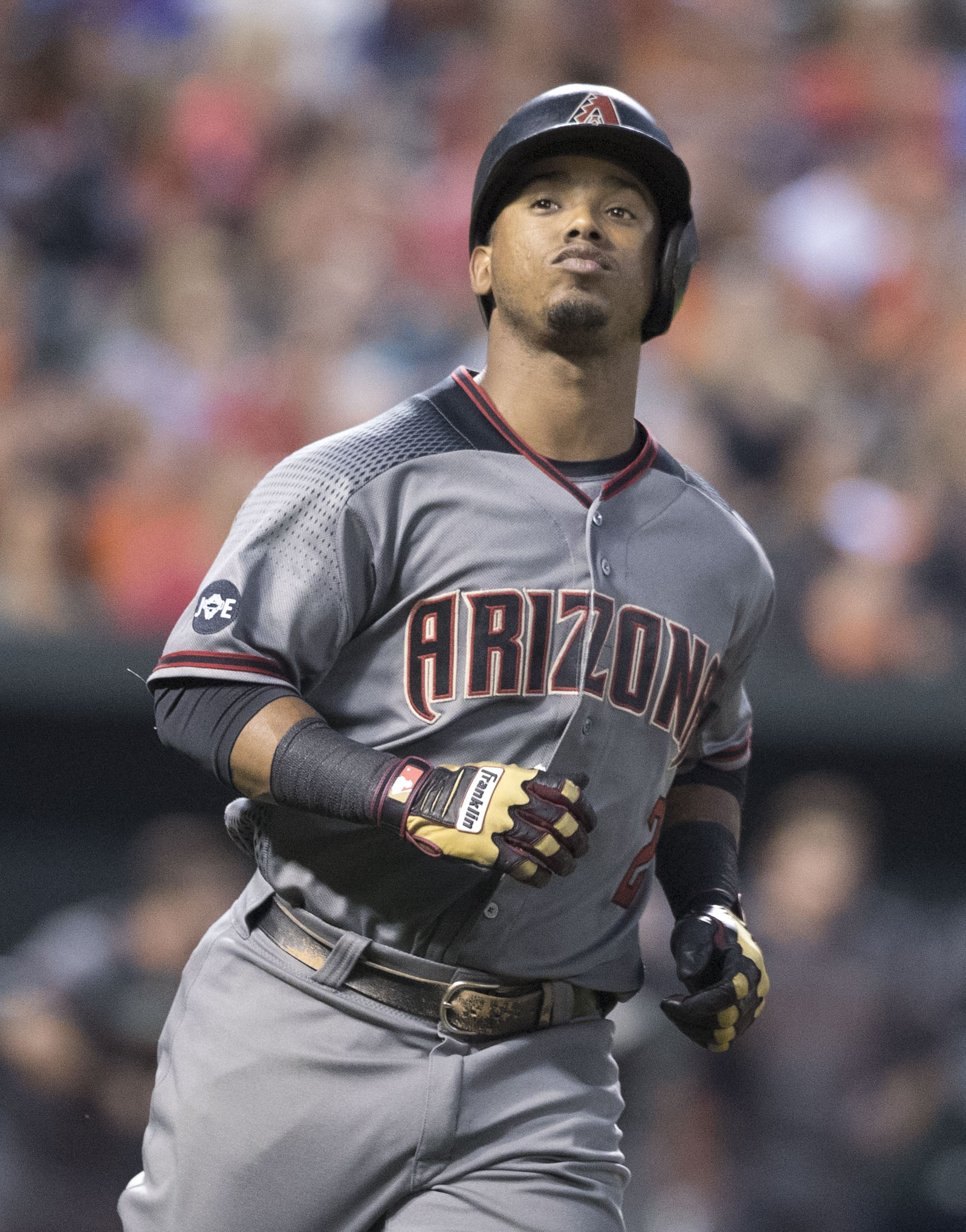 Diamondbacks at Orioles 9/24/16